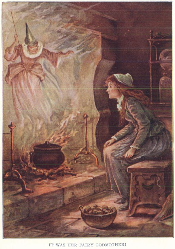 From Childhood's Favorites and Fairy Stories, illustrated by Oliver Herford. The book is copyrighted earliest at 1909 and one of the three editors died in 1909.